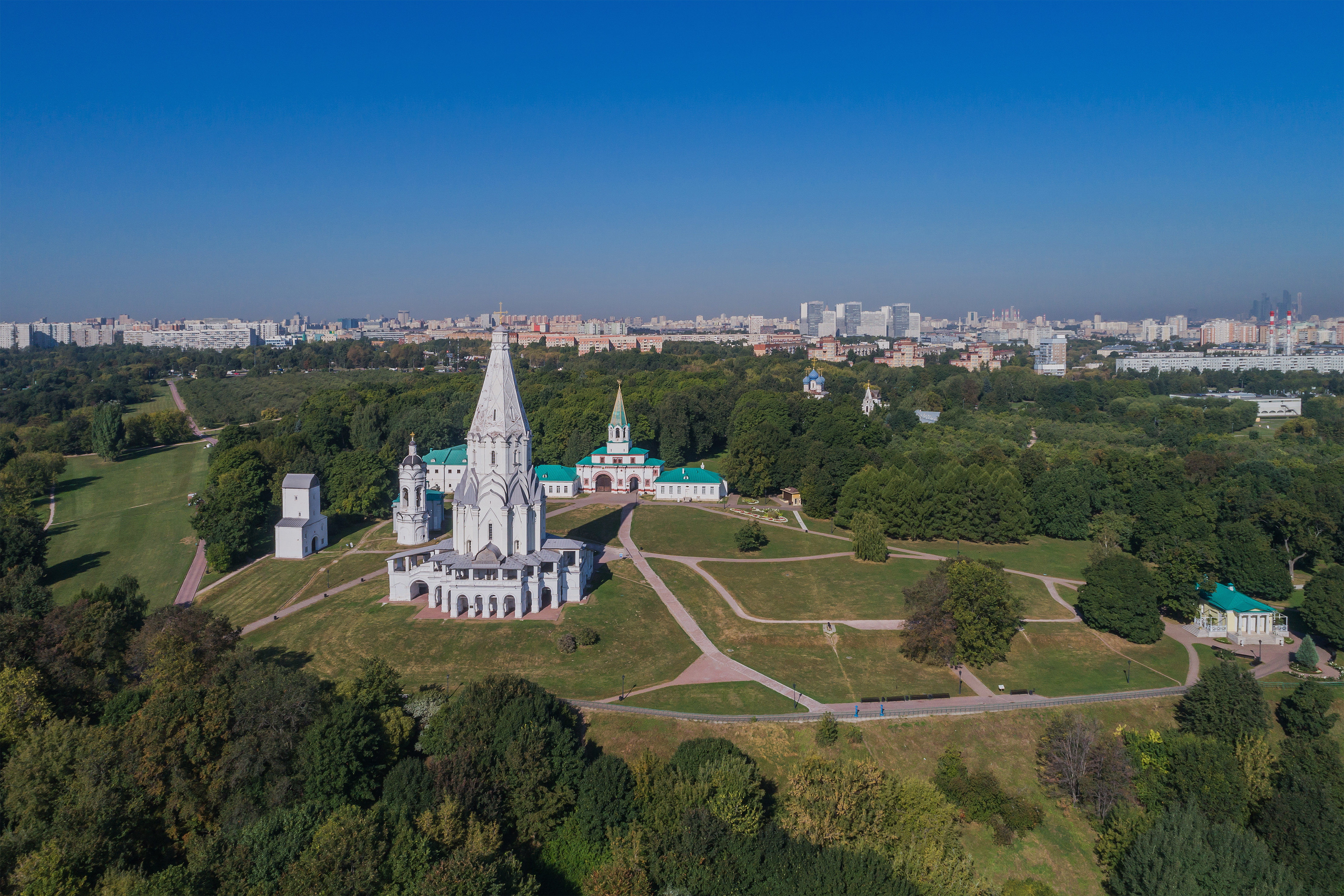 Aerial photo of Kolomenskoe park and estate in Moscow, Russia.